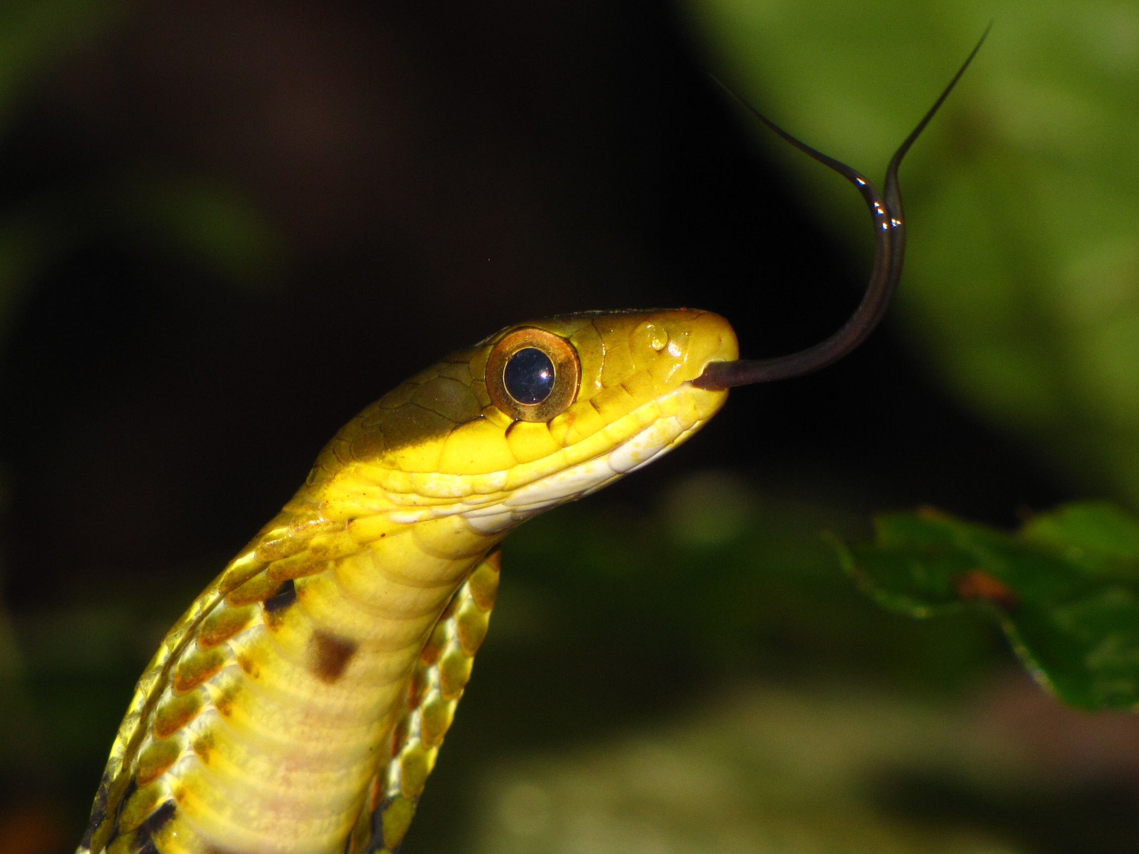 Taken in Namdapha Tiger Reserve